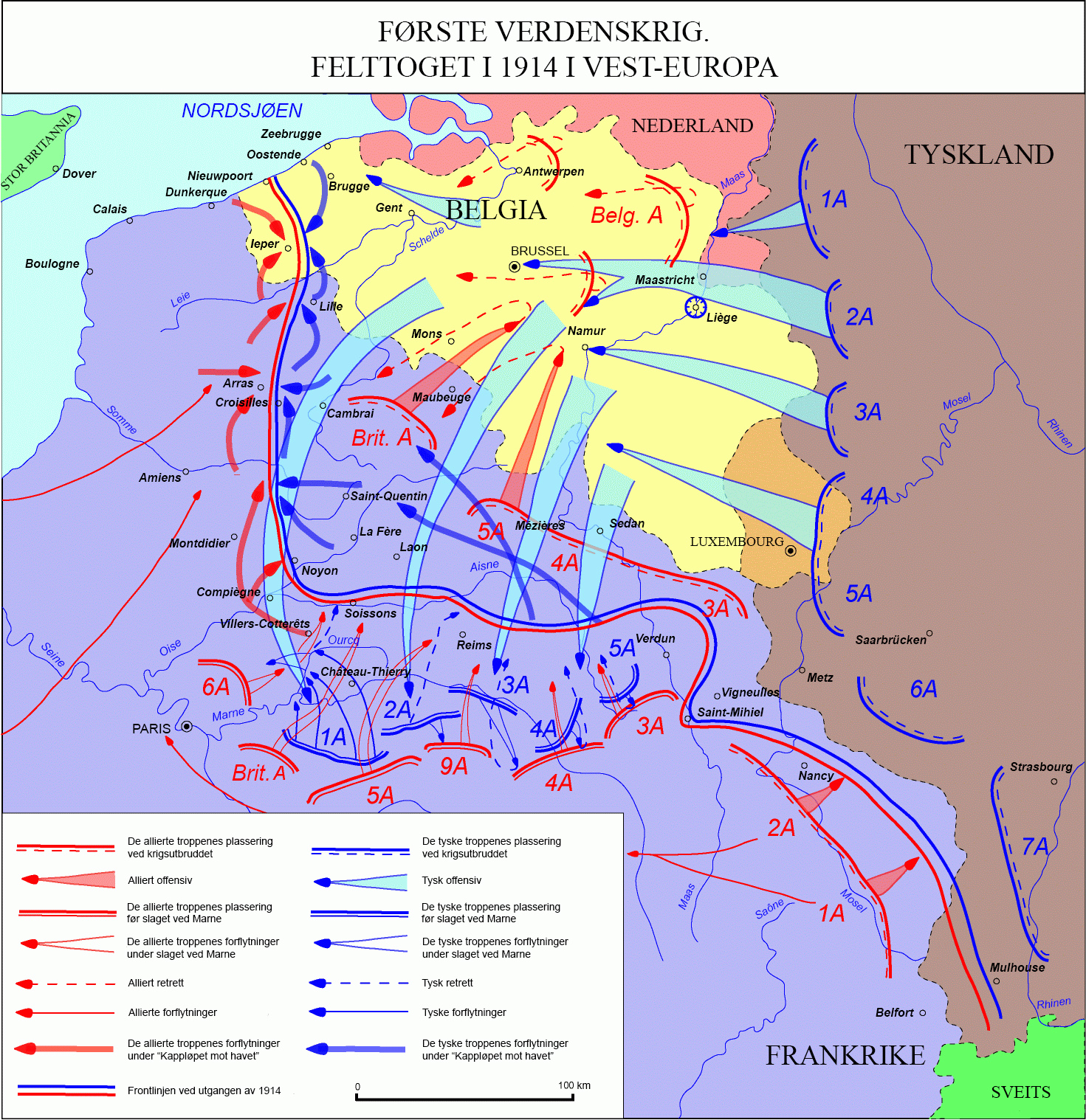 Version in Norwegian. World War I. The campaign of 1914 Western European Theater